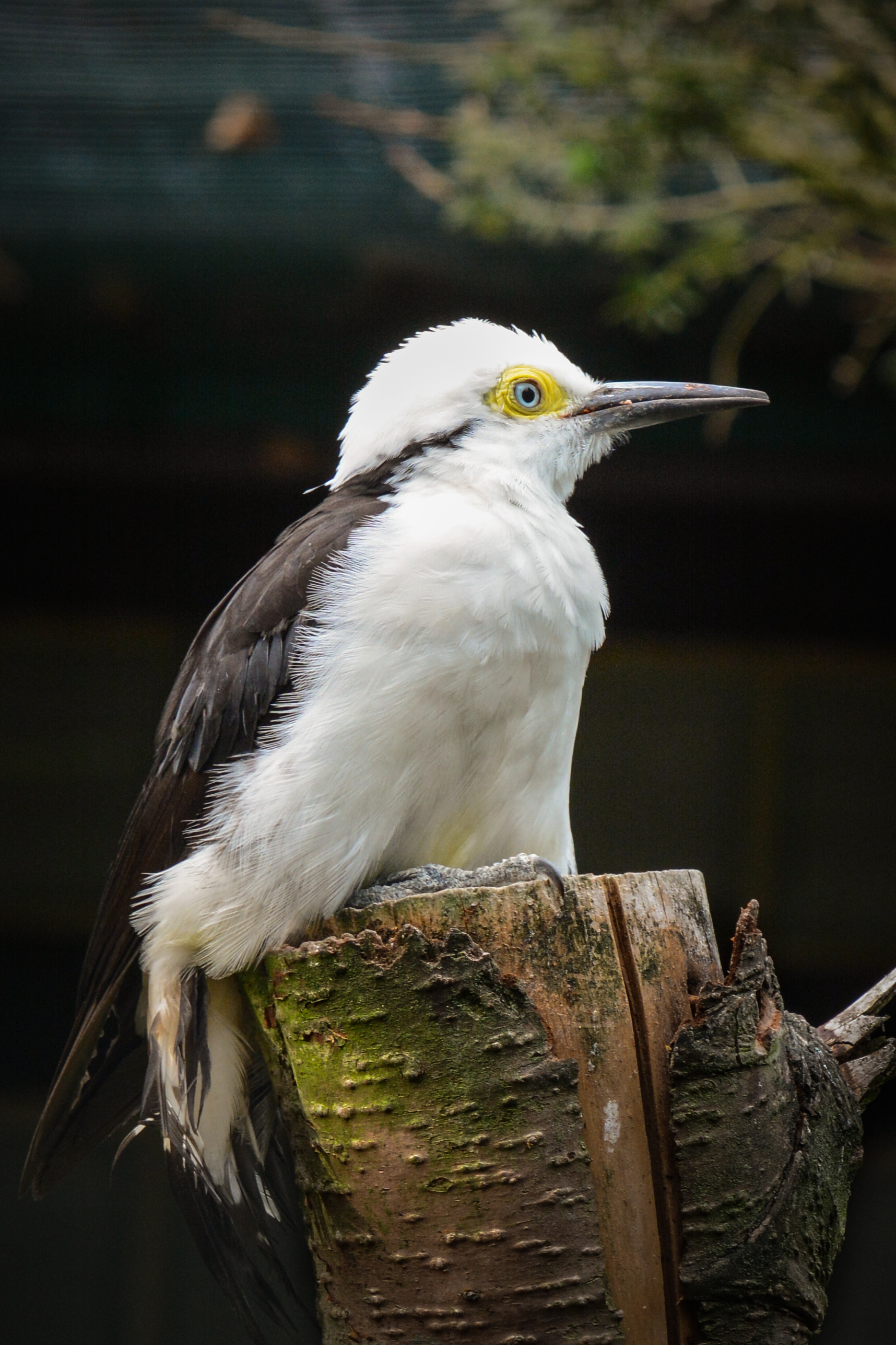 White Woodpecker (Melanerpes candidus) at Weltvogelpark Walsrode (Walsrode Bird Park, Germany)